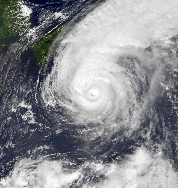 Typhoon Oscar on September 16, 1995